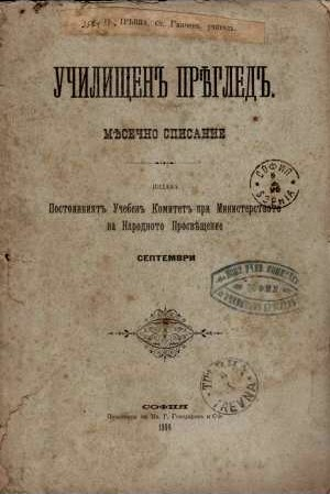 School magazine review 1896